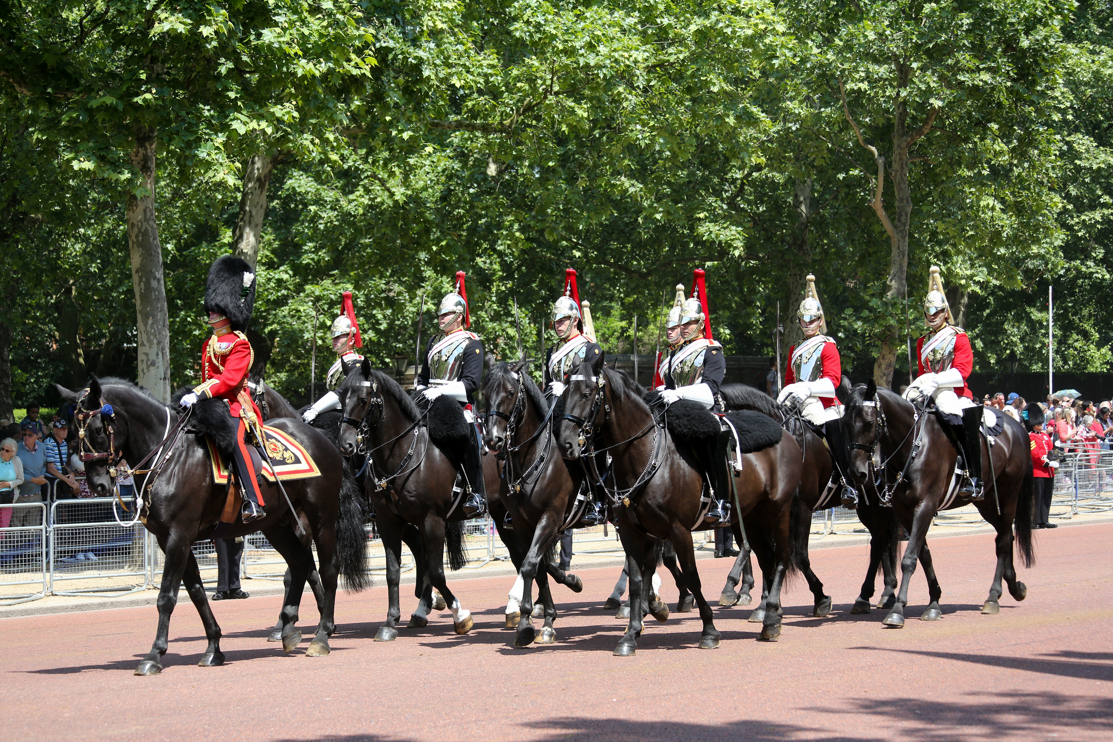 Four troopers of the Blues and Royals, and four troopers of the Life Guards, respective top finishers from their regiment in the Princess Elizabeth Cup (The Richmond Cup), following the Brigade Major Household Division Lieutenant Colonel Guy Stone. The top finishers of the Princess Elizabeth Cup ride in the lead of their regiment in the sovereign procession from Buckingham Palace to Horse Guards Parade during Trooping the Colour. The Life Guards and the Blues and Royals alternate riding ahead of and riding behind the Queen's carriage each year.